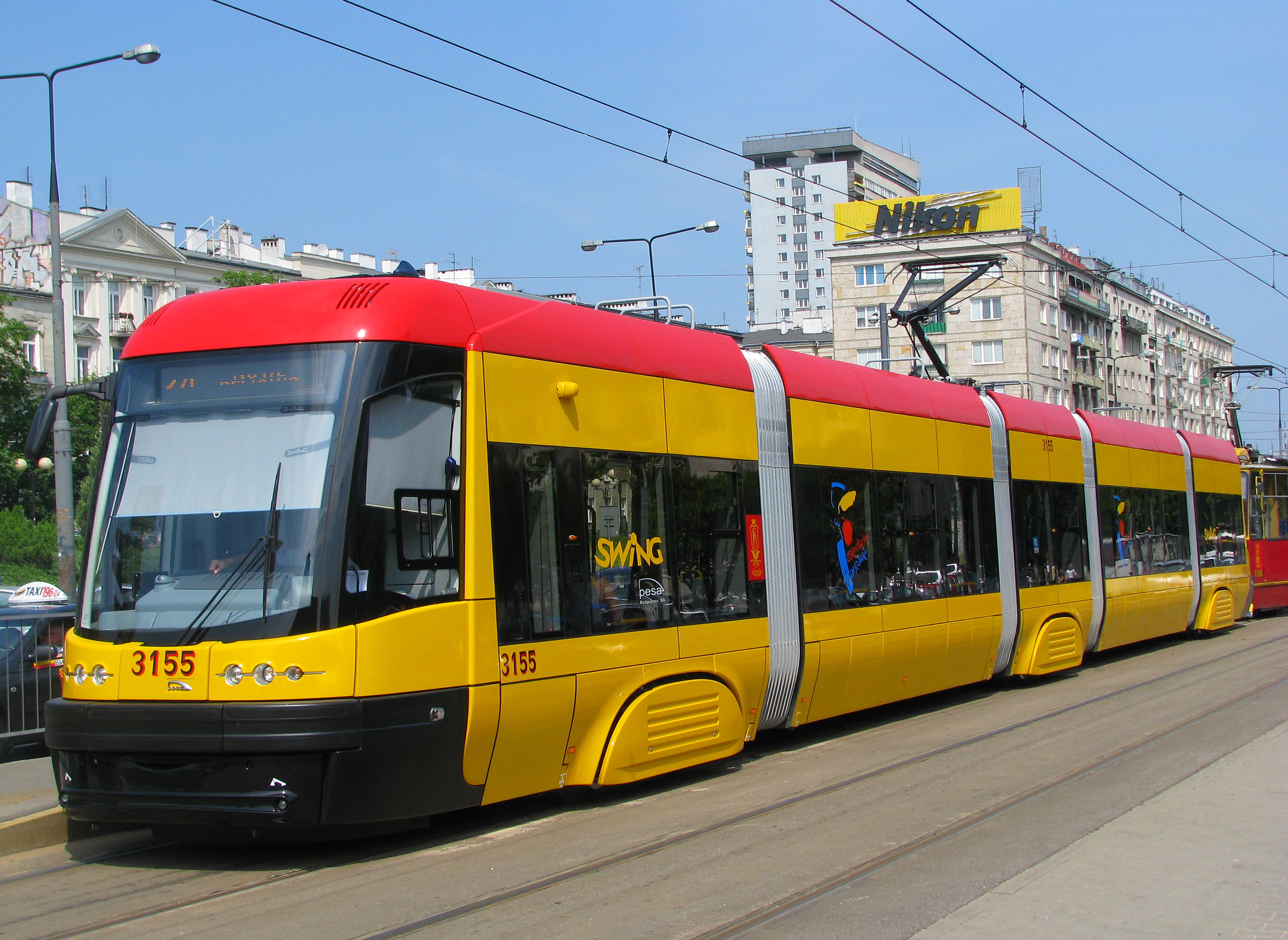 PESA 120Na Swing tram (#3155) in Warsaw, Poland. Built 2011, Tramwaje Warszawskie operator.